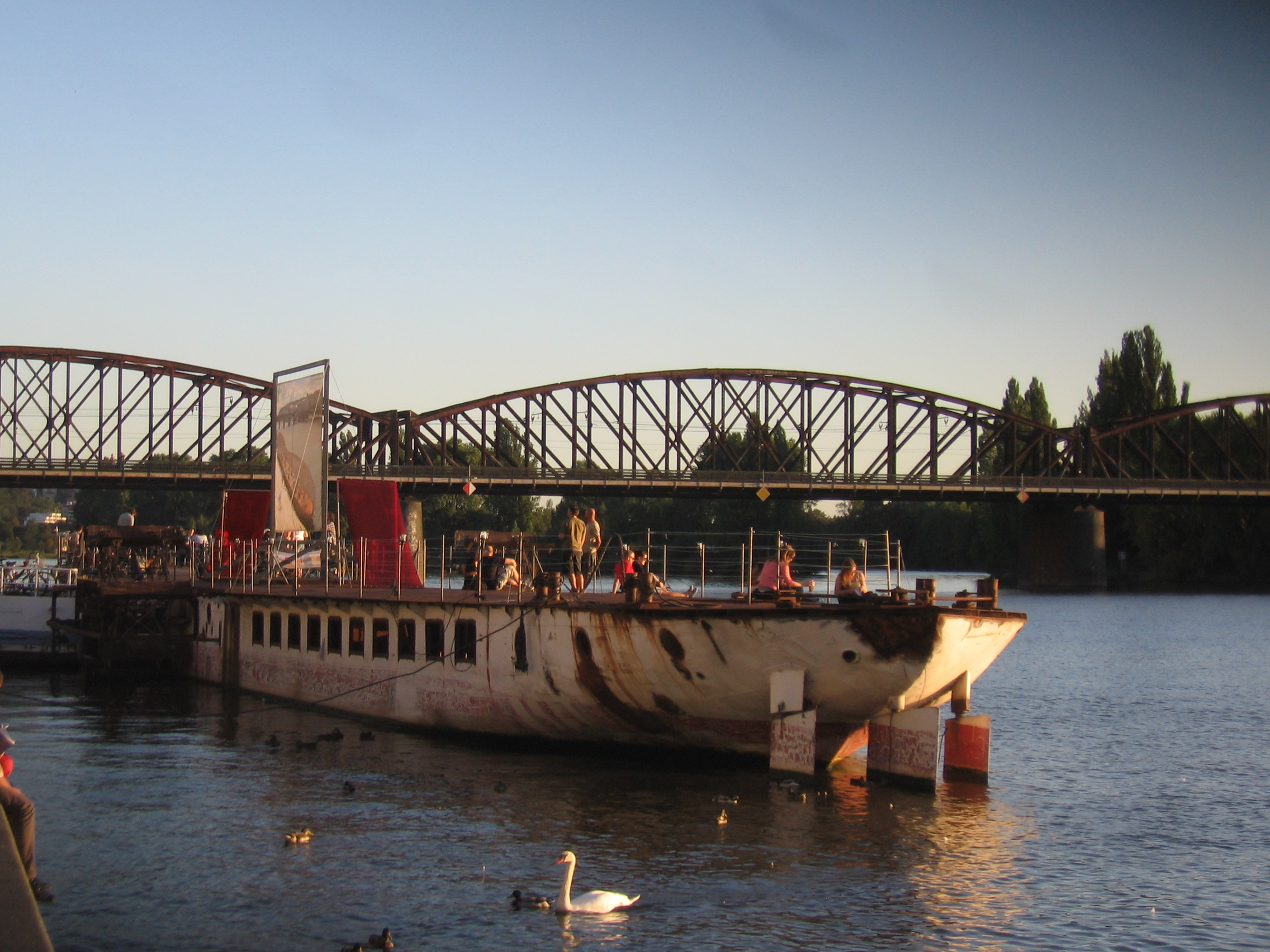 Paddle steamer Vyšehrad (originally *1938 Dr. Edvard Beneš) near the railway bridge in Prague